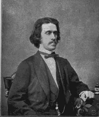 Josef Strauss (August 20, 1827 - July 22, 1870) was an Austrian composer. He was fondly referred to as 'Pepi' by his family and close friends.